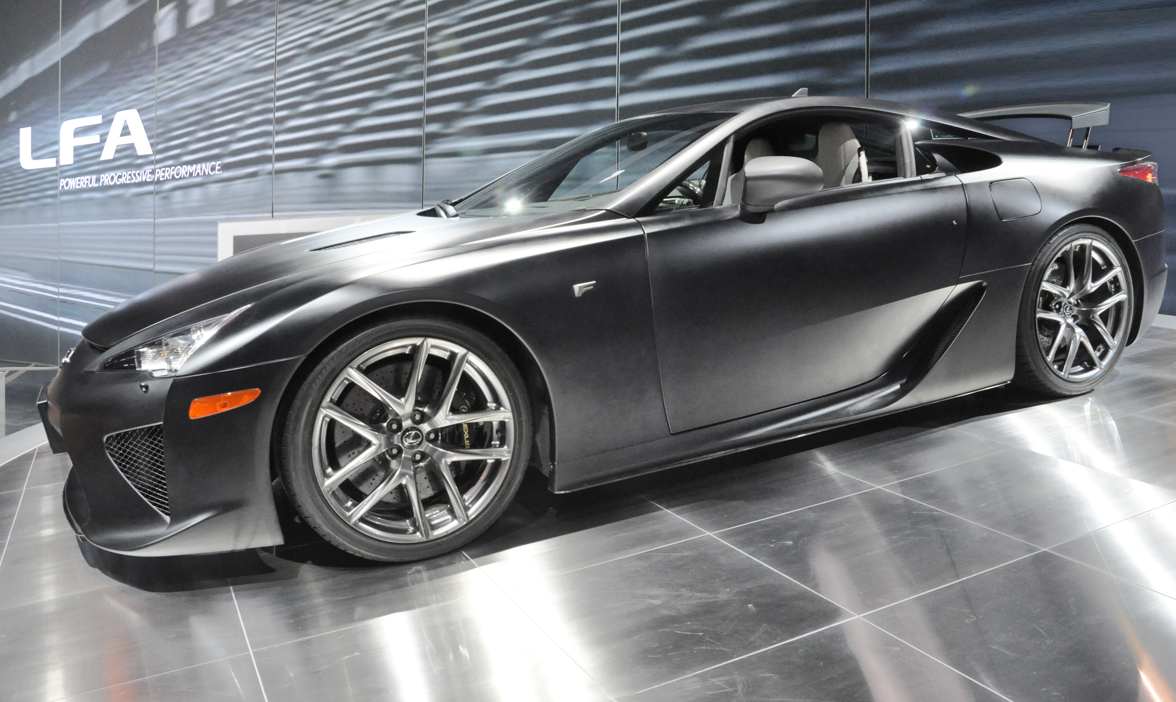 Chicago Auto Show 2010